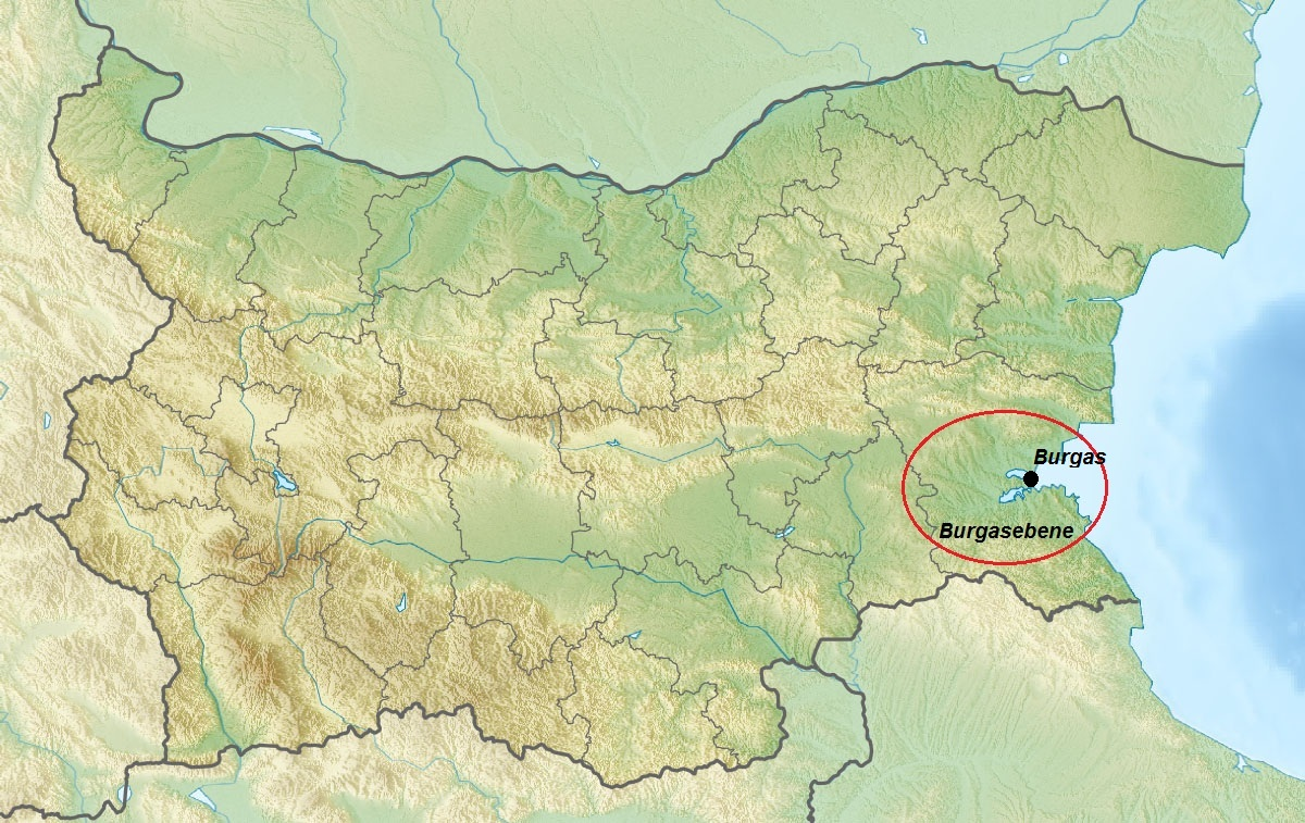 Location map of Bulgaria Equirectangular projection, N/S stretching 130 %. Geographic limits of the map: * N: 44.4° N * S: 41.1° N * W: 22.1° E * E: 28.9° E